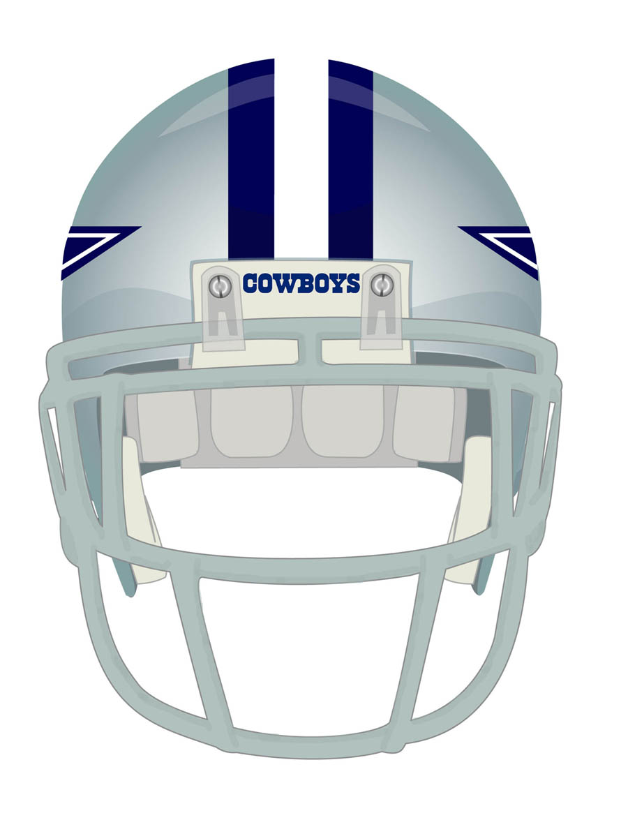 This image in its entirety was created exclusively by Duke Ha on June 28, 2008